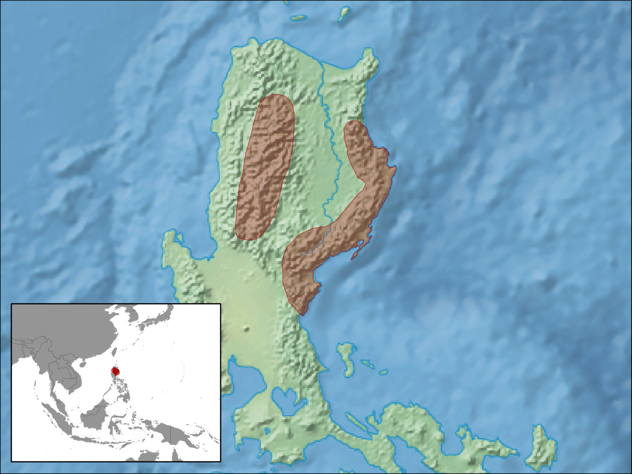 geographic dsitribution of Brachymeles bicolor